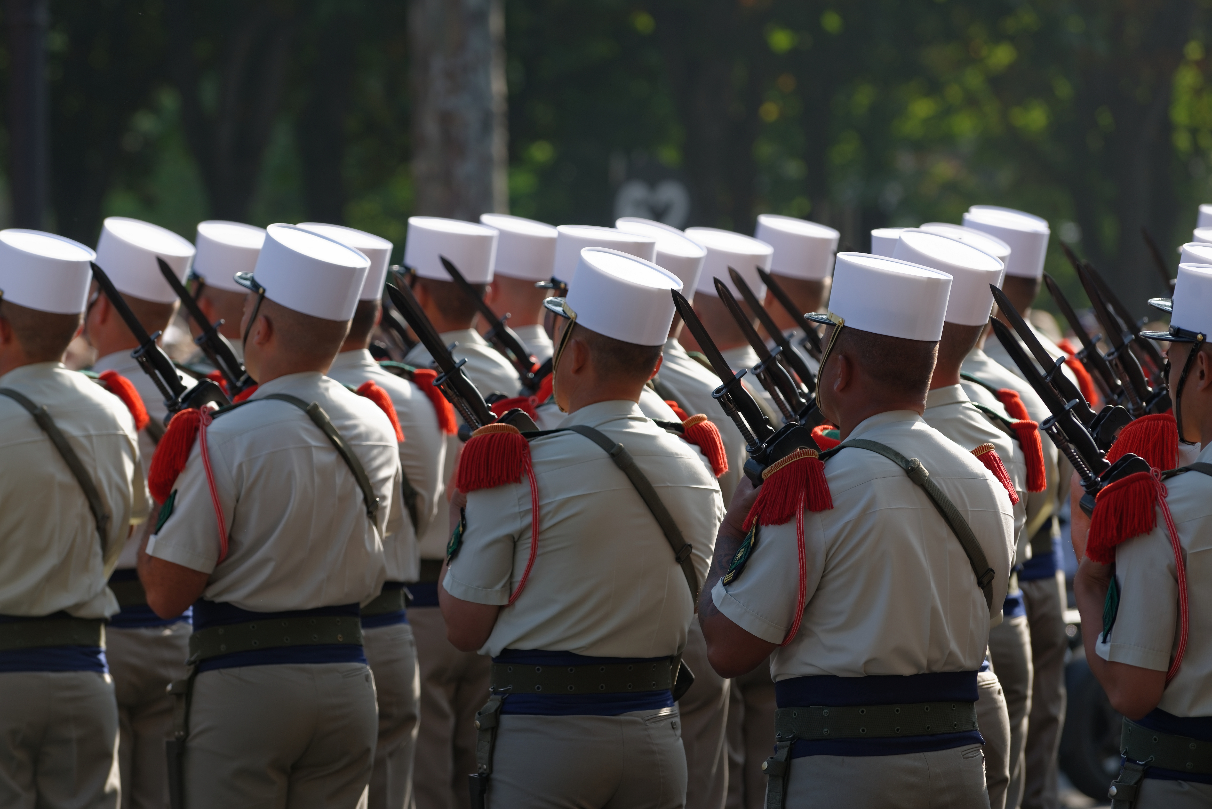 Men of the French Foreign Legion at the Bastille Day 2013 military parade on the Champs-Élysées in Paris.